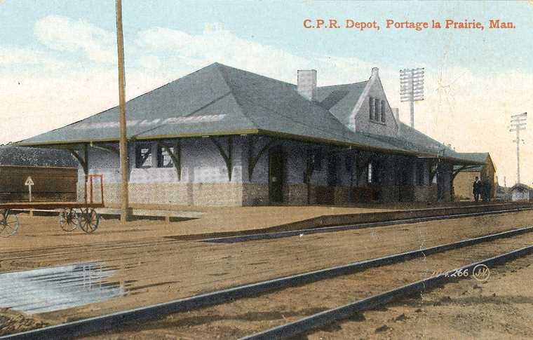 Database ID 33974 Institution University of Saskatchewan Archives Fonds/Collection Keith Ewart Photograph Collection File/Item Reference Postcards, Railway Stations Scope and content Three-colour postcard of the Canadian Pacific Railway depot at Portage la Prairie, Manitoba. Physical description/extent 1 postcard; 9 x 14 cm Date produced [190-?] Date Range(s) 1900-1909 Publisher Valentine & Sons Publishing Co., Ltd. Copyright holder Public domain Subjects Buildings and Architecture -- Railway Stations Language of card English Postcard style divided back Postcard media photo-engraving hand-tinted Place - image Portage la Prairie, Manitoba, Canada